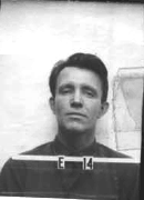 James H. Coon Los Alamos wartime security badge.